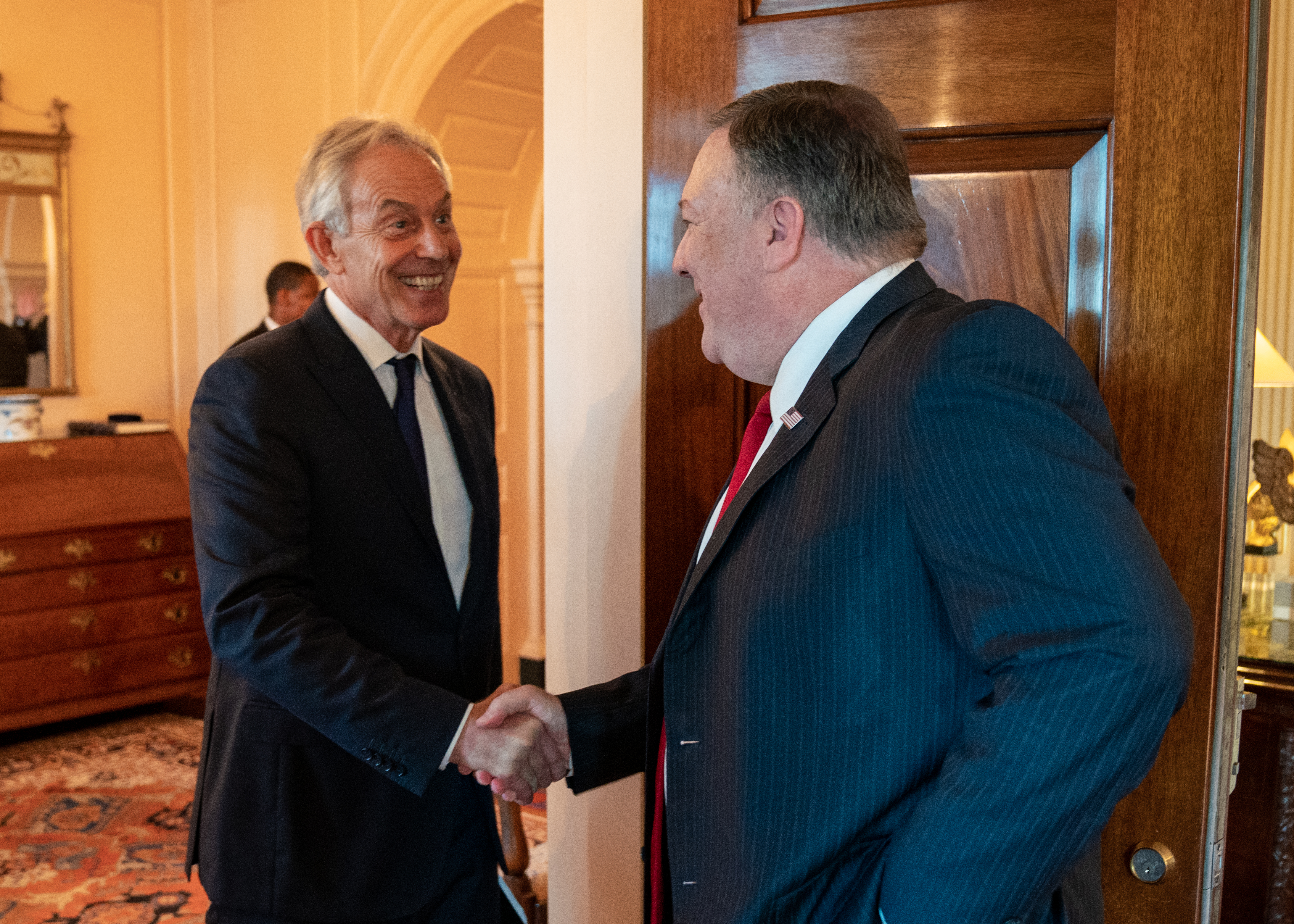 U.S. Secretary of State Michael R. Pompeo meets with former United Kingdom Prime Minister Tony Blair, at the U.S. Department of State in Washington, D.C., on July 17, 2019. [State Department photo/ Public Domain]